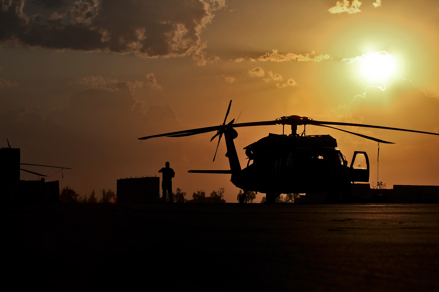 CAMP TAJI, Iraq-Under the morning sun, a UH-60 Black Hawk helicopter crew chief from 3rd Battalion, 227th Aviation Regiment, 1st Air Cavalry Brigade, 1st Cavalry Division, Multi-National Division - Baghdad, starts to remove the fly away gear from a helicopter during a preflight inspection, here, Sept. 24.